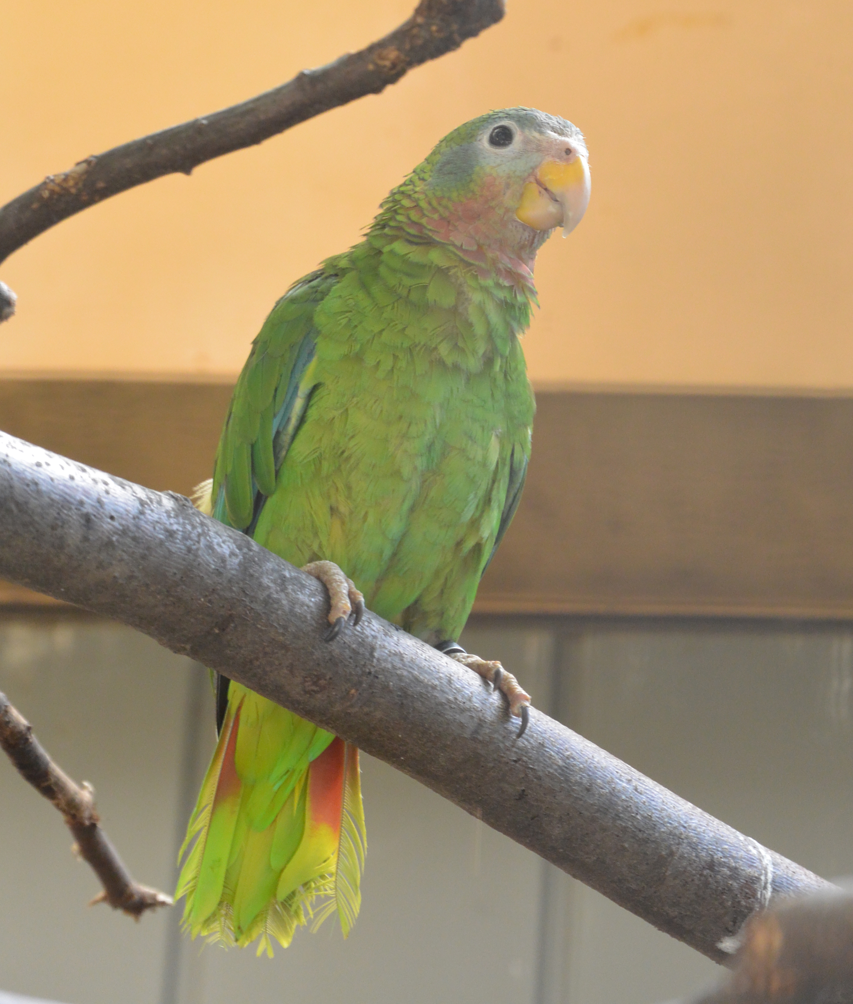 A Black-billed Amazon at Vienna Zoo, Schonbrunn Palace, Vienna, Austria.